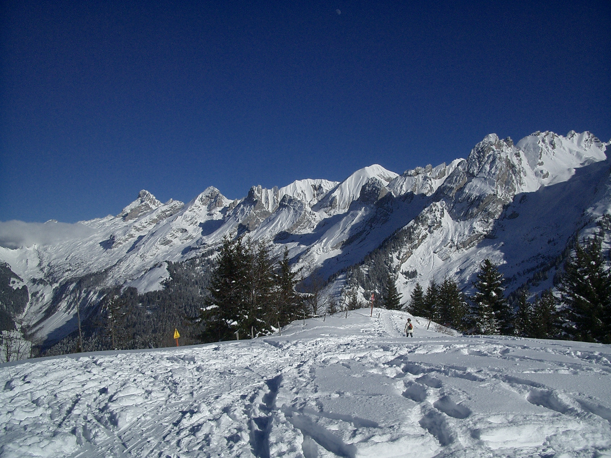 my own photograph